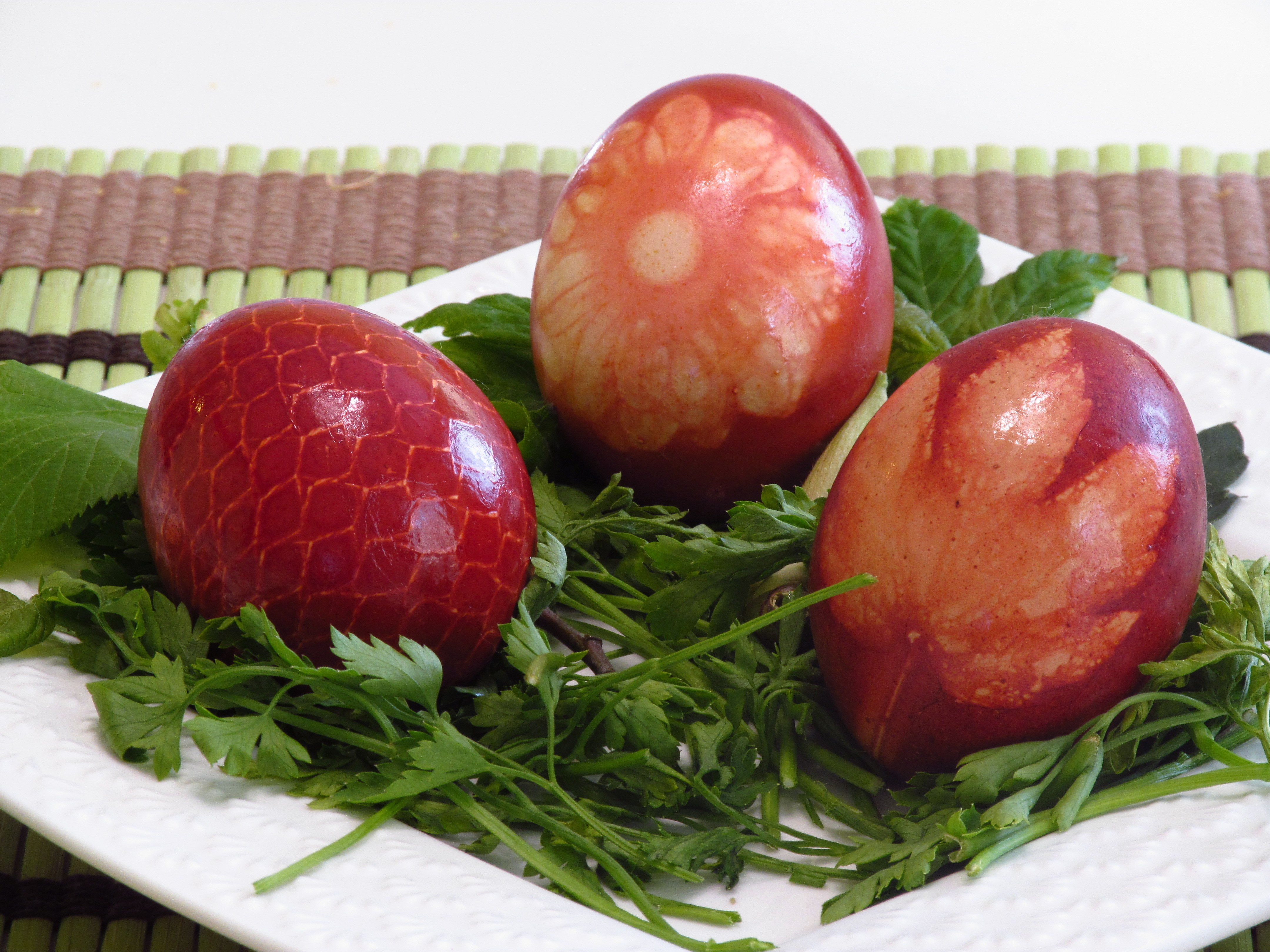 Easter eggs painted with onion skins